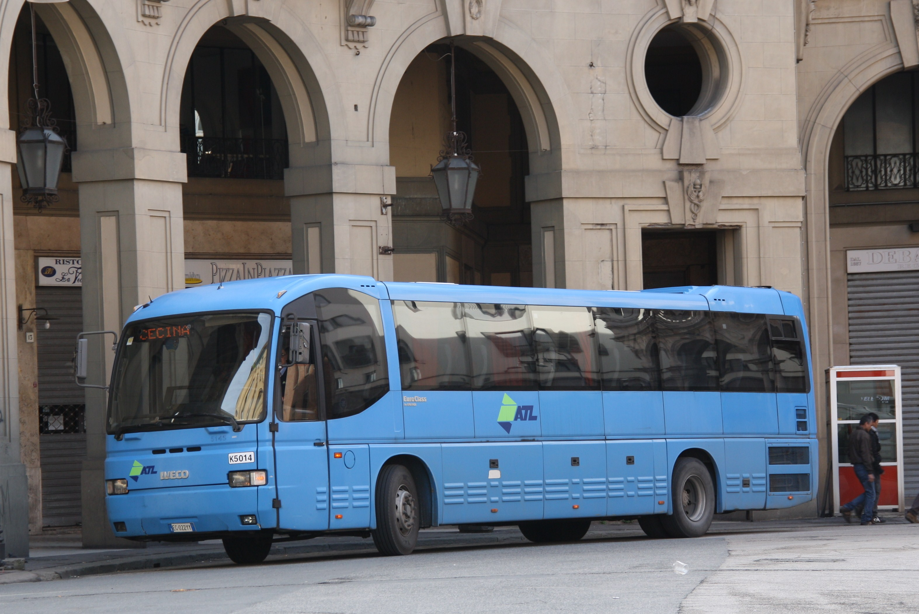 Italy Livorno, Azienda Trasporti Livornese Iveco EuroClass employed in the intercity service.